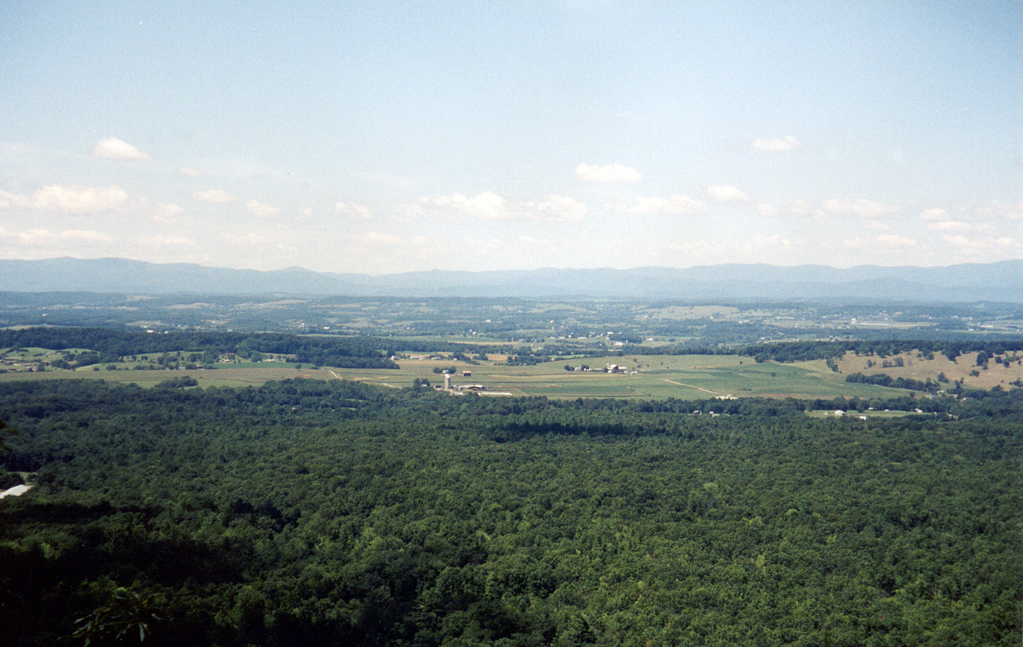 A view across Augusta County in the Shenandoah Valley. The photo was taken from the foot of the Blue Ridge Mountains near Harriston, VA. The Allegheny range is in the far background. Photographed by Nathaniel R. Stickley